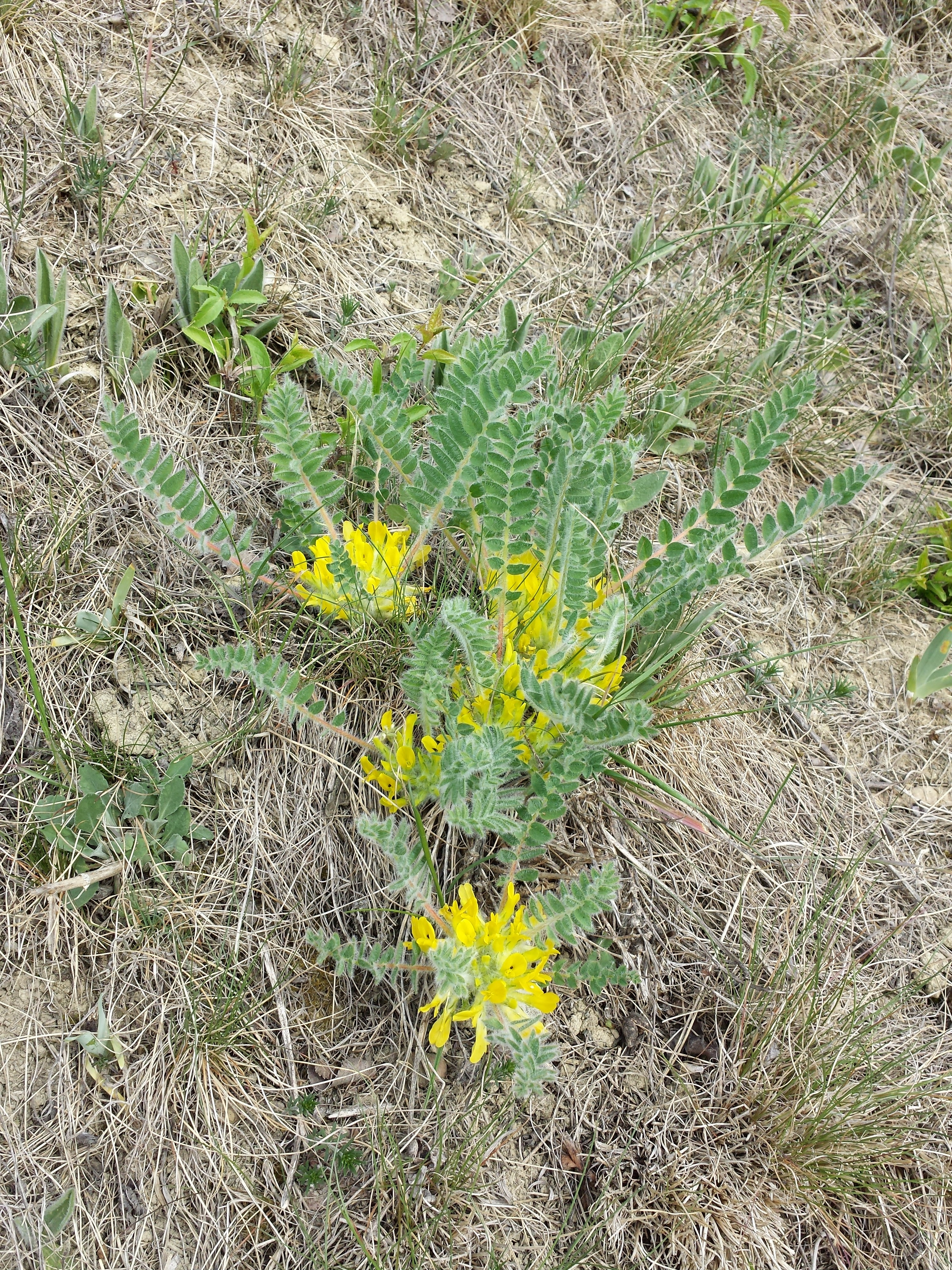 Habitus Taxon: Astragalus exscapus (sensu Fischer et al. EfÖLS 2008 ISBN 978-3-85474-187-9) Location: nature reserve Mühlberg, district Hollabrunn, Lower Austria - ca. 260 m a.s.l. Habitat: dry grassland over Loess This media shows the nature reserve in Lower Austria with the ID 9.